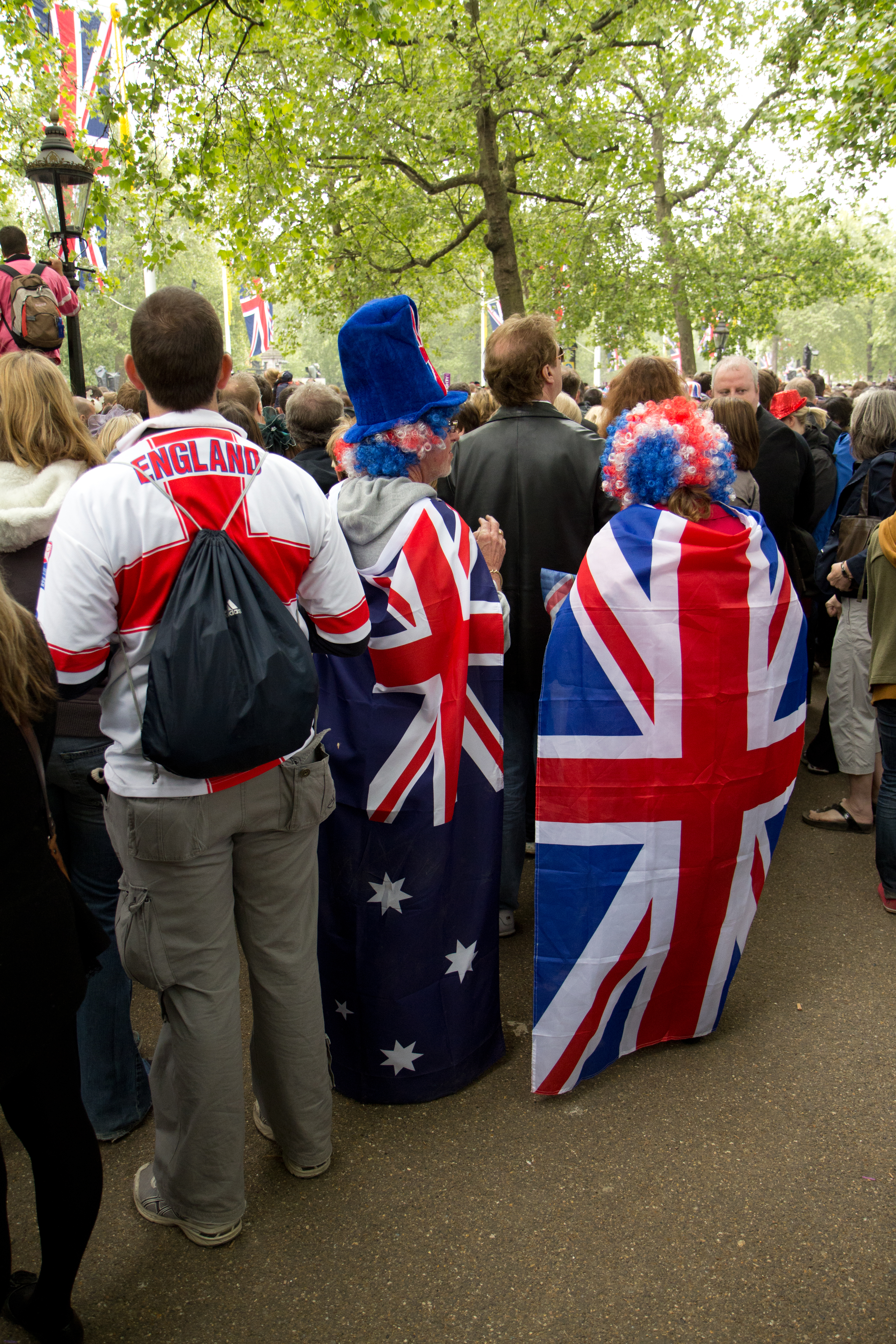 Wedding of Prince William of Wales and Kate Middleton